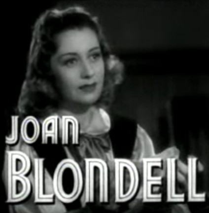 Cropped screenshot of Joan Blondell from the trailer for the film Cry 'Havoc'